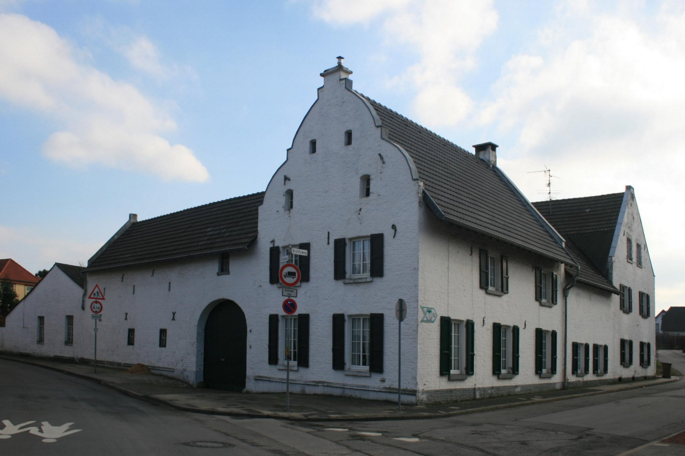 Cultural heritage monument No. 3 in Jülich